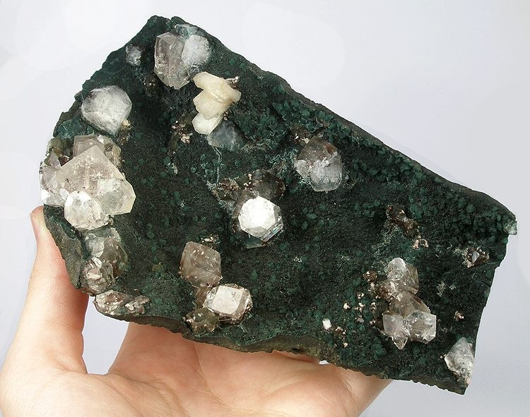 Calcite, Apophyllite-(KF), Stilbite-Ca, Celadonite Locality: Jalgaon District, Maharashtra, India (Locality at ) Size: 14.0 x 9.0 x 3.9 cm. A fine cabinet combination specimen from recent finds at Jalgaon, India. "Gems" of lustrous, transparent to translucent, brown-tinted, calcite rhombs, glassy, colorless, apophyllite crystals and a single, pearlescent, tan, bladed stilbite crystal cluster are aesthetically scattered on the elongated, bowl-shaped vug lined with contrasting, green celadonite. Many of the apophyllite crystals are perched on the calcite rhombs for added effect.